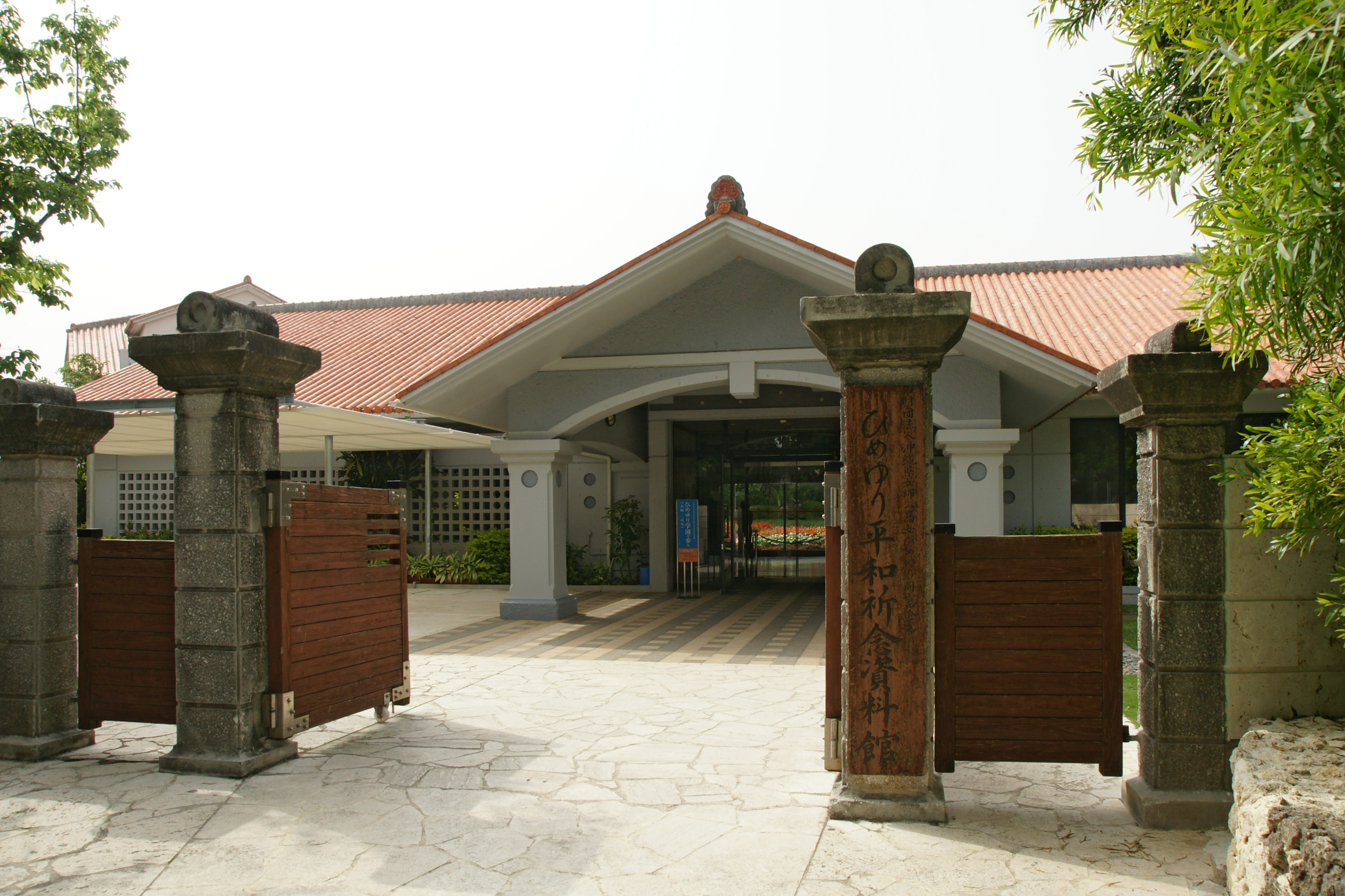 Himeyuri Peace Museum in Itoman, Okinawa prefecture, Japan.